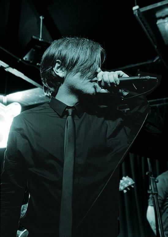 photo of Menswe@r lead singer, Johnny Dean ( taken at a show on the 16th August 2013 at The Rattlesnake, Islington